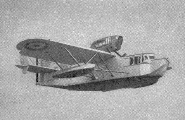 Loire 130 photo from L'Aerophile January 1940